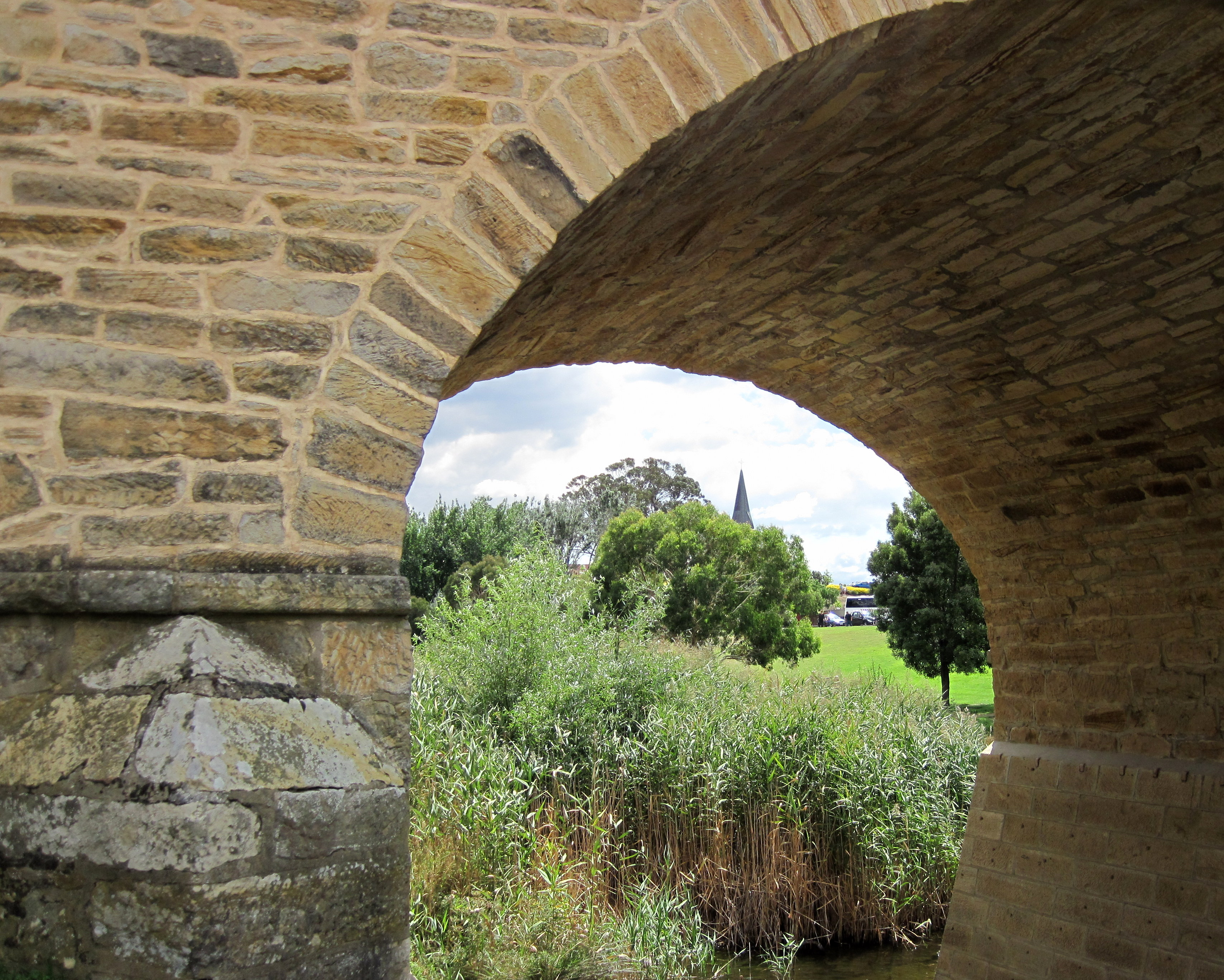 Church steeple and vegitation seen through an old sandstone bridge in Richmond, Tasmania